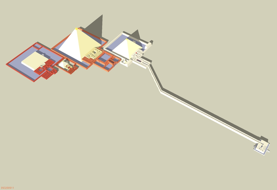 Restored view of pyramids of Khentkaus II, Neferirkare and Nyuserre Ini at Abusir - 5th dynasty of Egypt